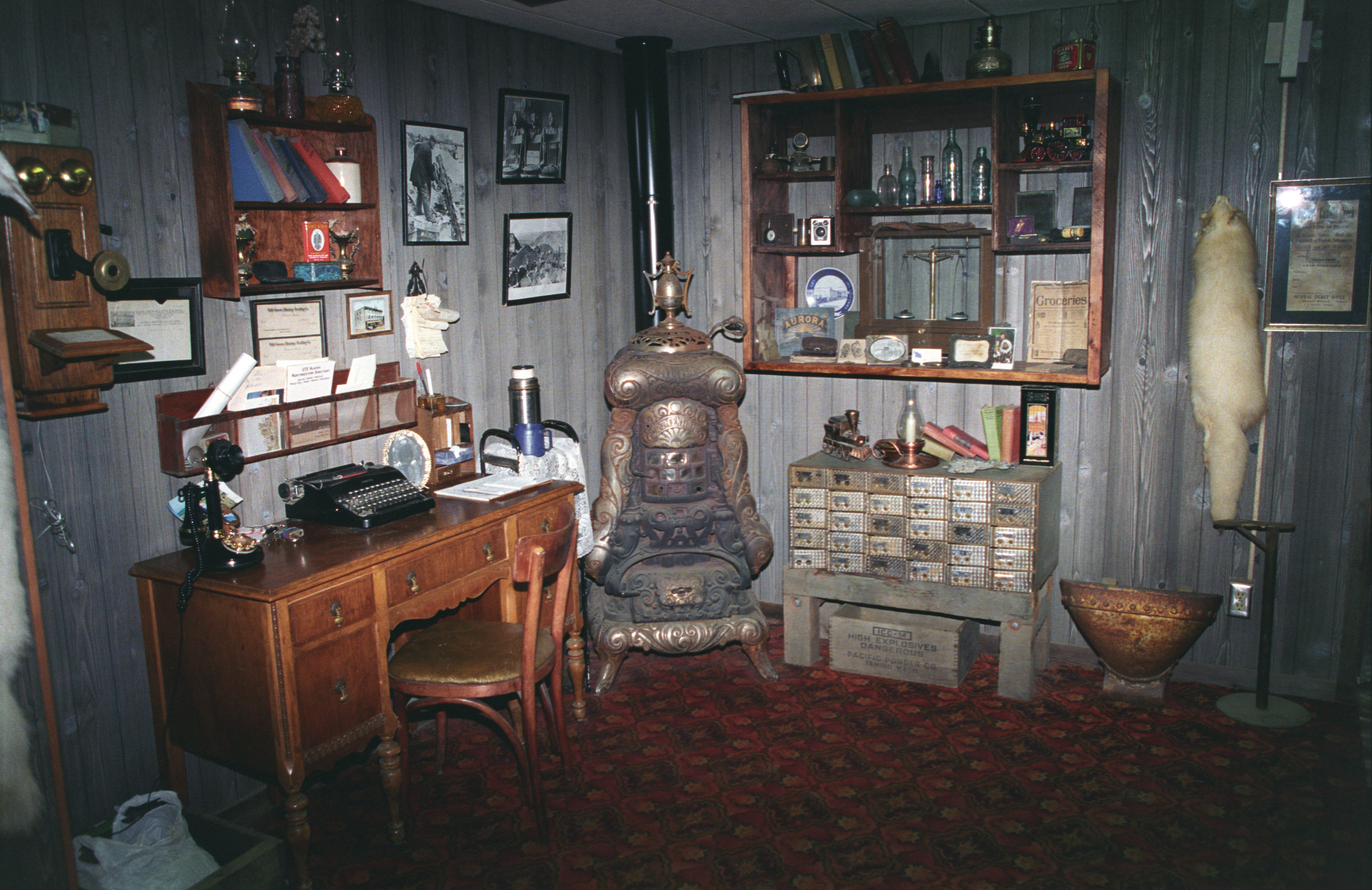 Nome, museum - old mine office